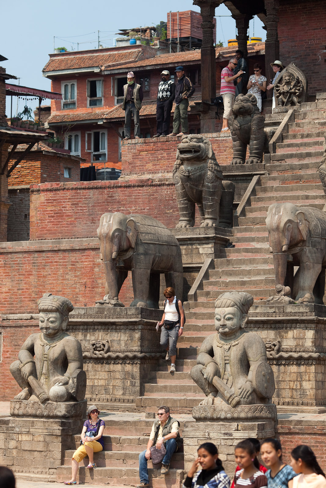 ascending, Rajput wrestlers (Jaimal & Patta), elephants, lions, griffons, and a pair of Tantric godesses - in Bhaktapur Nepal